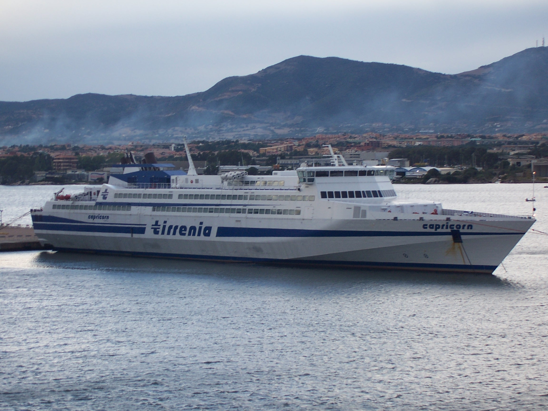 HSC Capricorn the fast ferry of the Tirrenia di Navigazione into Olbia (Sardinia) harbour